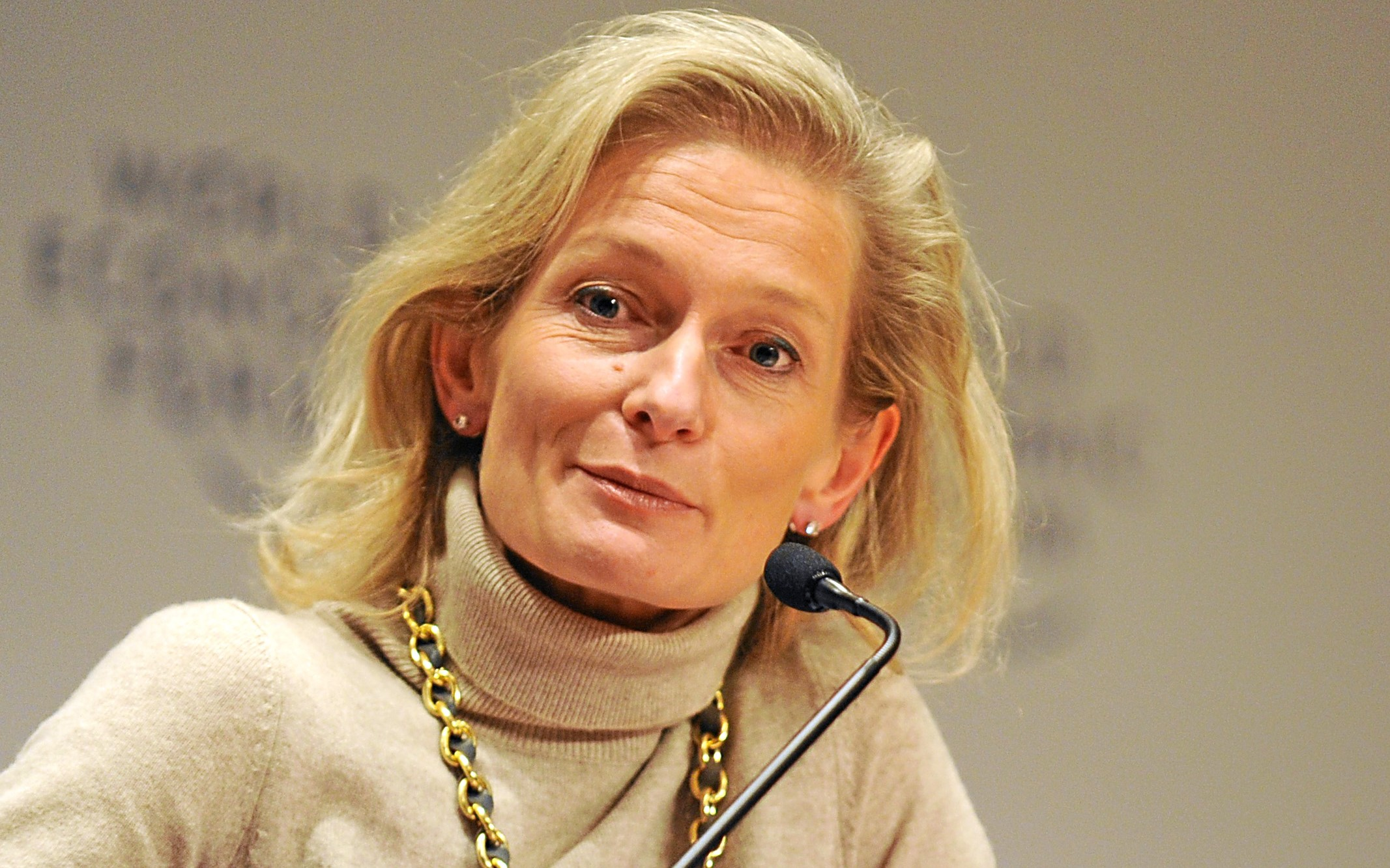 DAVOS/SWITZERLAND, 25JAN13 - Zanny Minton Beddoes (L), Economics Editor, The Economist, United Kingdom; Global Agenda Council on Fiscal Sustainability and Guido Westerwelle (R), Federal Minister of Foreign Affairs of Germany are seen during the session 'Open forum: Eurozone - Solidarity or Domination?' at the Annual Meeting 2013 of the World Economic Forum at the Swiss alpine high school in Davos, Switzerland, January 25, 2013. Copyright by World Economic Forum Michael Wuertenberg I cropped from existing image on Commons